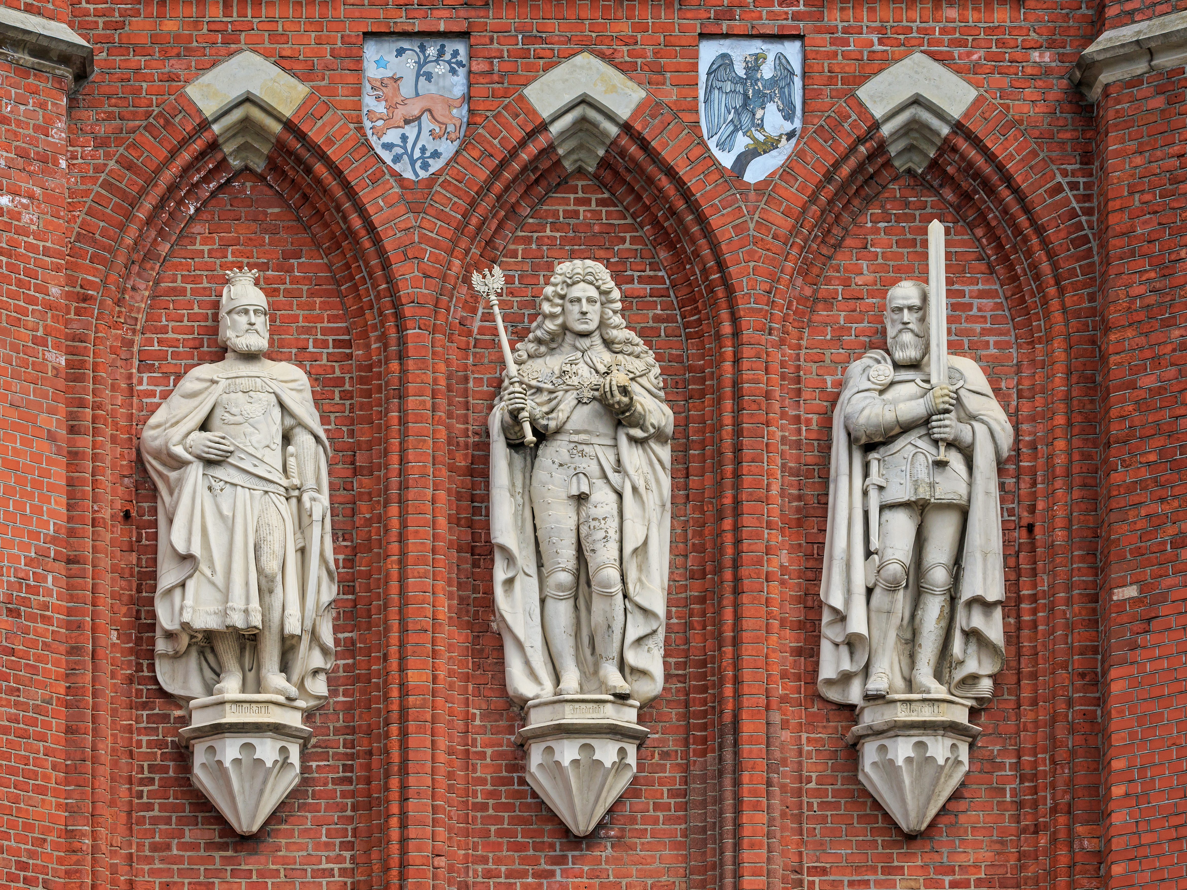 King's Gate in Kaliningrad formerly Königsberg, Kaliningrad Oblast (Russia).